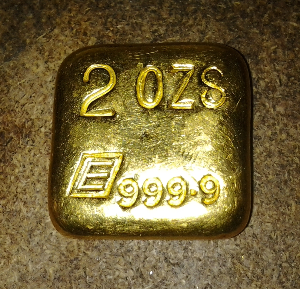 A 2oz poured Engelhard gold bar. 99.99% pure Image created by uploader and released to above license. Chillum 20:48, 28 July 2014 (UTC)